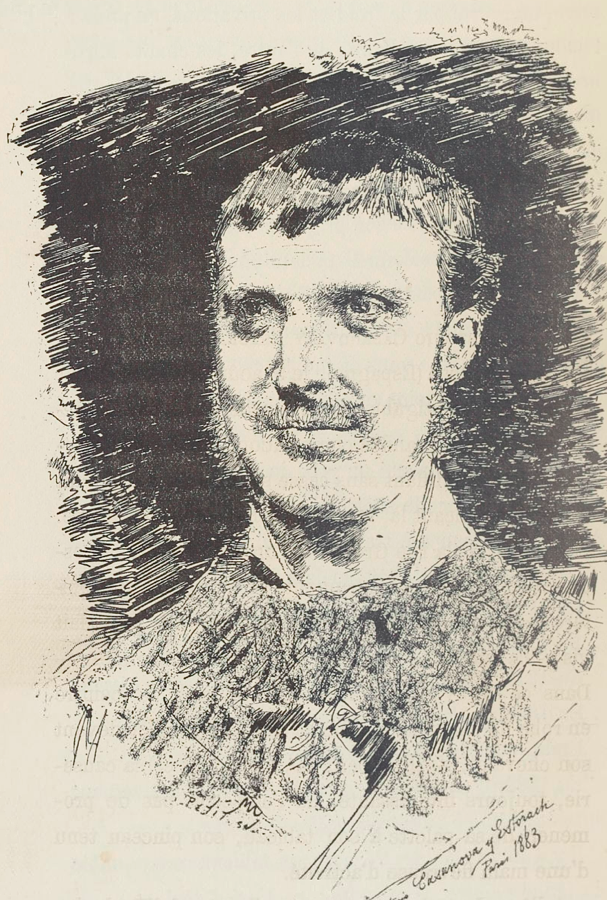 Selportrait of Antonio Casanova y Estorach, sketch.